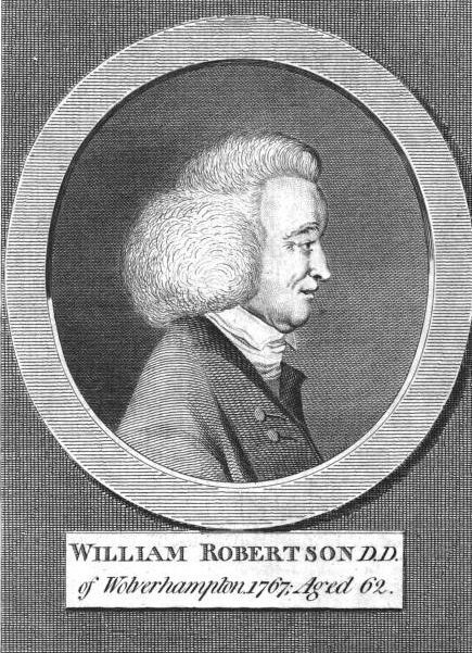 Portrait of William Robertson (1705–1783), Irish theologian.